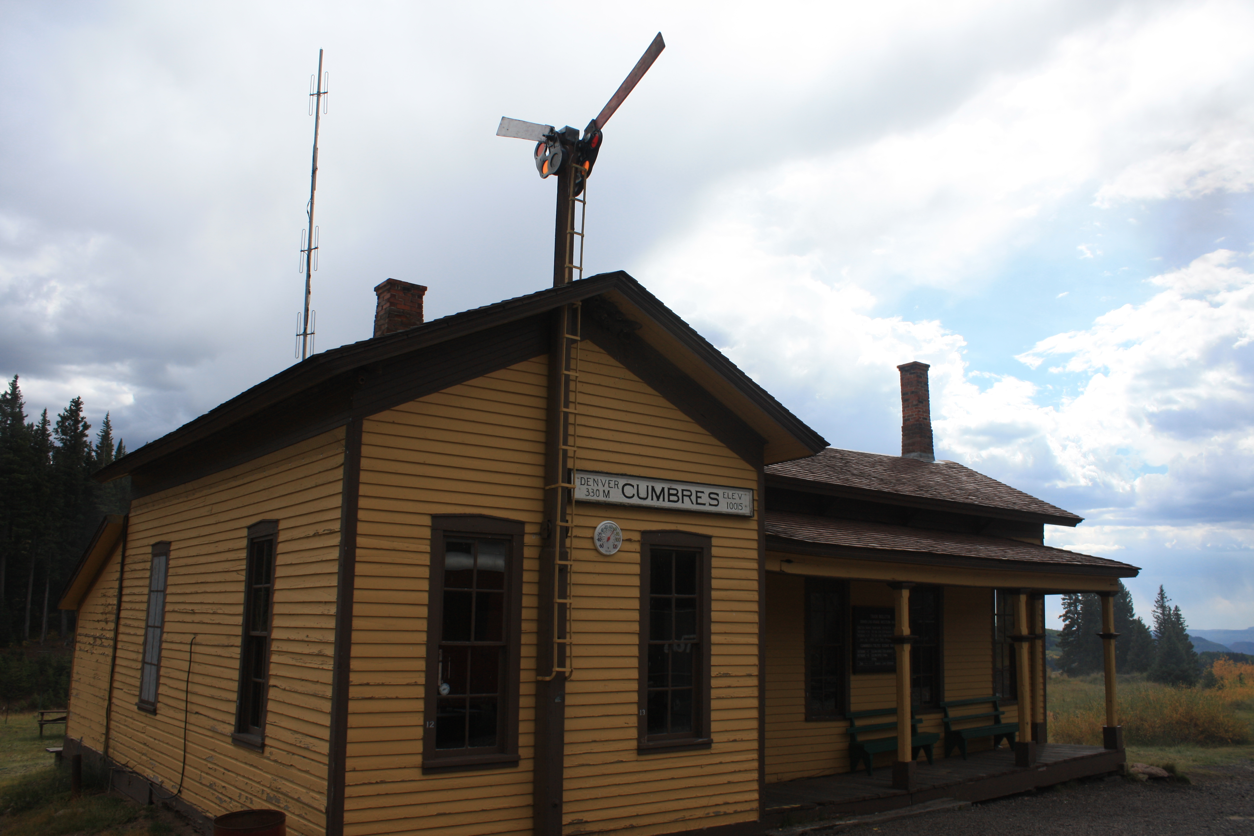 Cumbres station, el. 10,015 ft., CTSRR